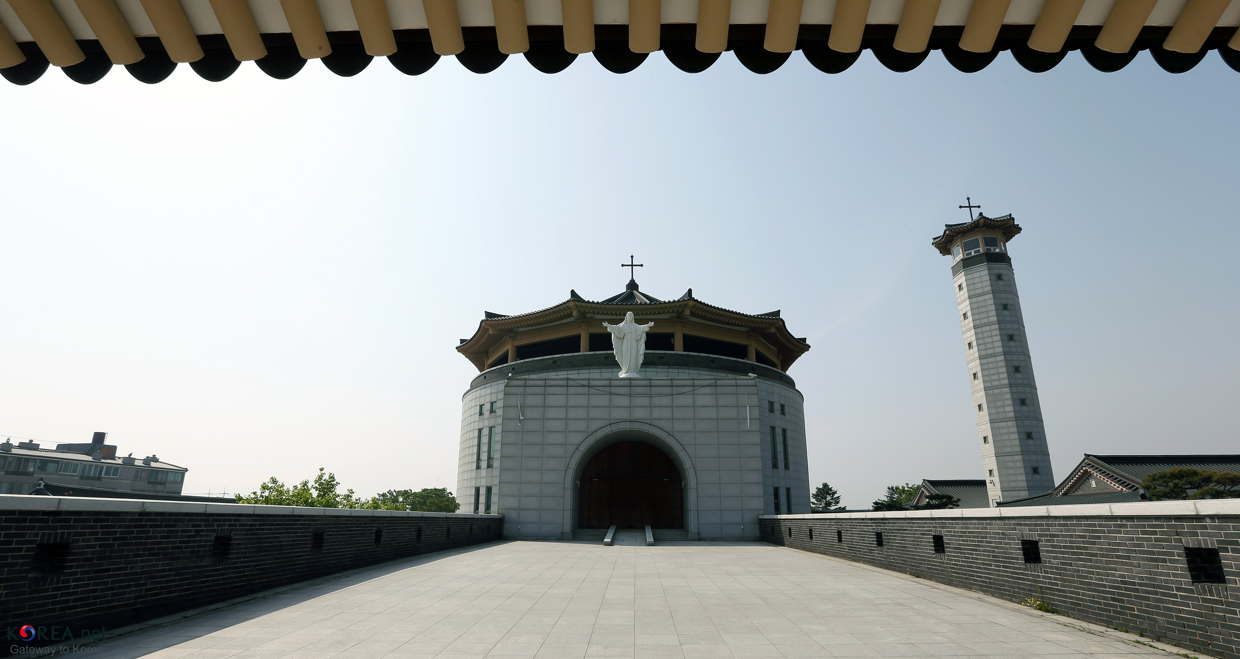 Haemi Martyrdom Holy Ground May 13, 2014 Eumnae-ri, Haemi-Myeon, Seosan-si, Chungcheongnam-do Ministry of Culture, Sports and Tourism Korean Culture and Information Service ( Official Photographer: Jeon Han This official Republic of Korea photograph is licensed as free content, so while restrictions such as personality or privacy rights may apply, in general, manipulations are allowed. If you want a photograph without a watermark, you may ask via Flickr e-mail. 해미성지 2014-05-13 충청남도 서산시 해미면 읍내리 문화체육관광부 해외문화홍보원 코리아넷 전한